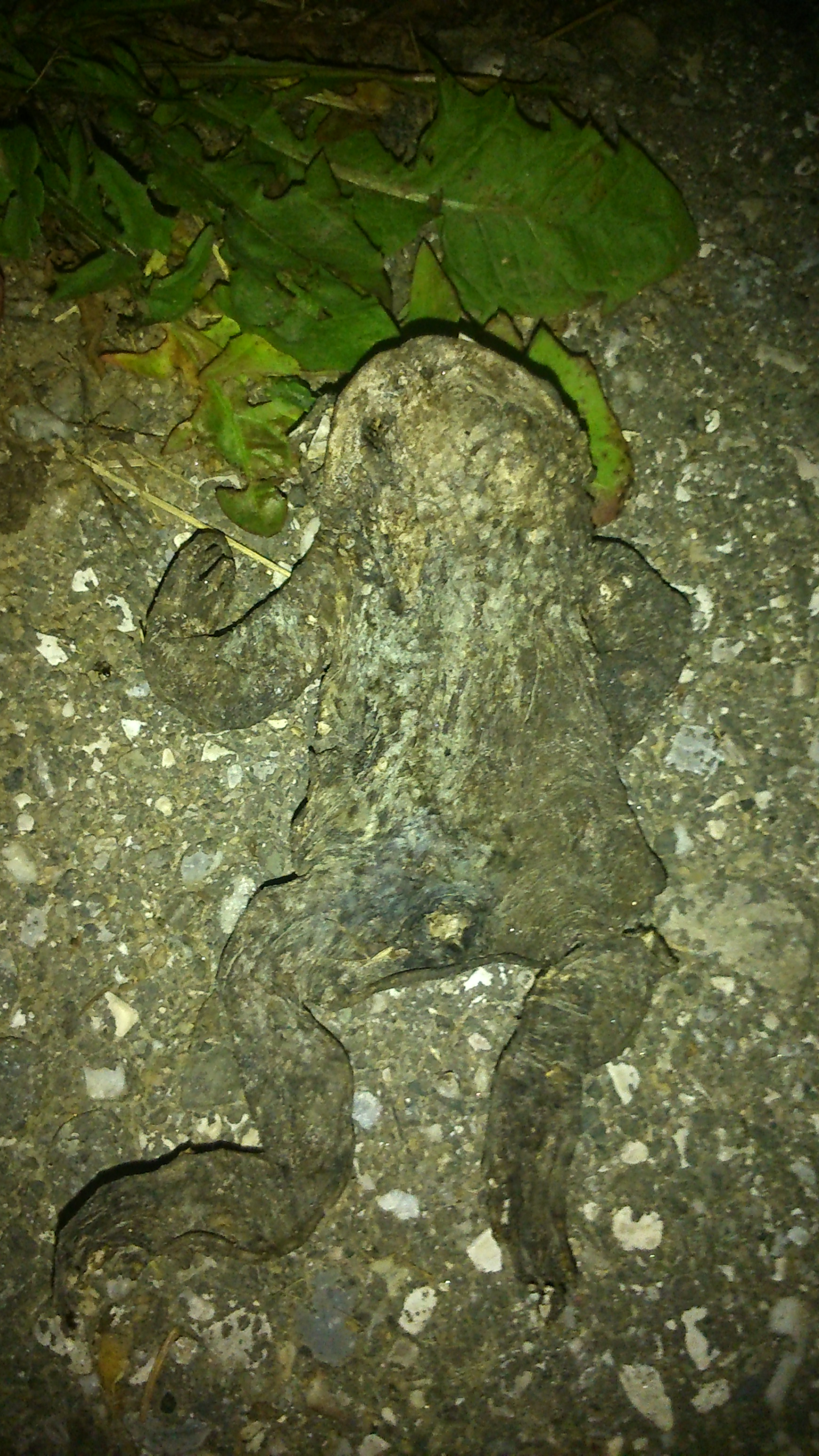 Dried out frog, found on street (probably died because of the heat wave). Picture of the stomach from this animal.